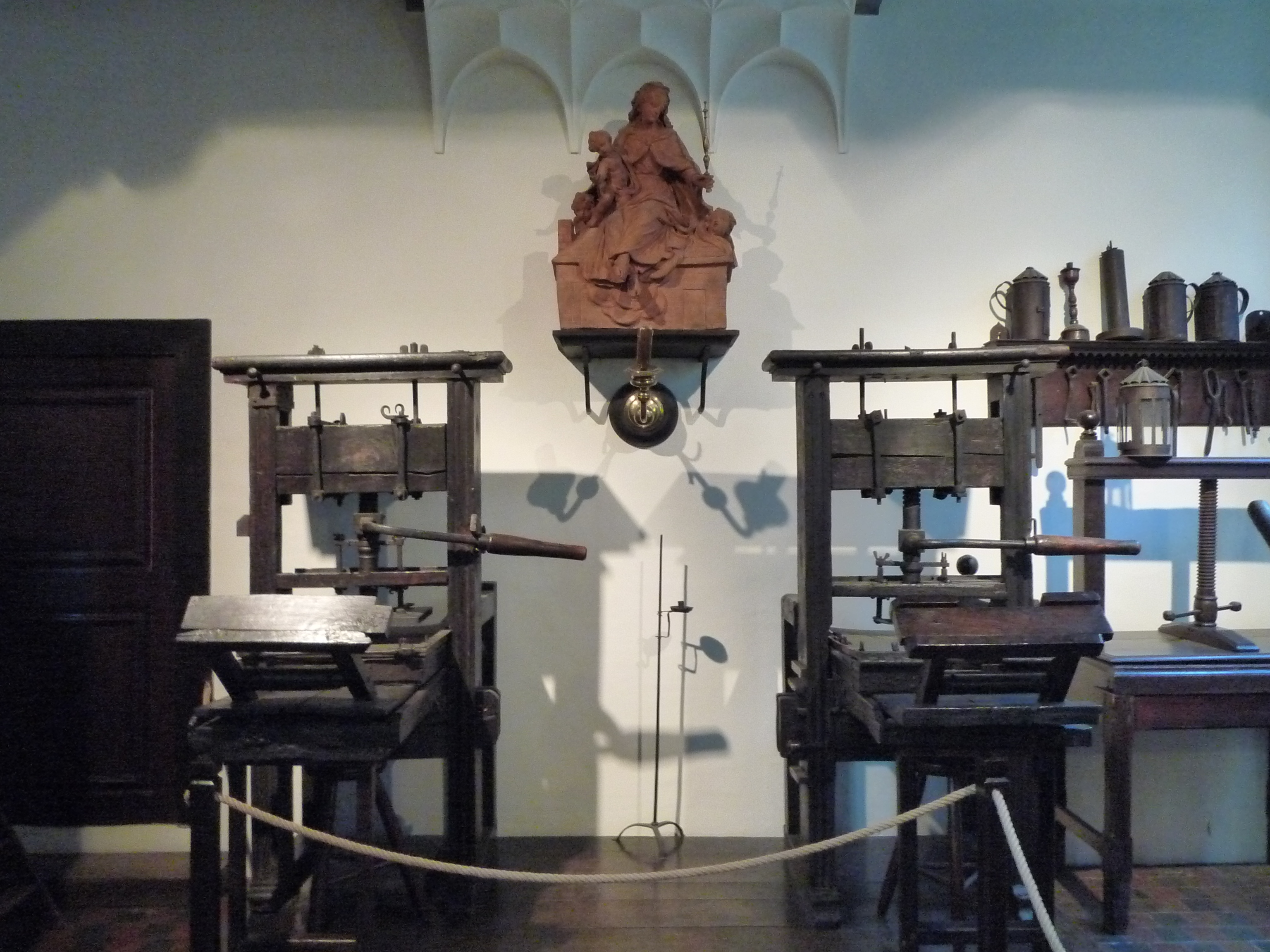 The two oldest printing press kept in the world (XVIth century), in the Plantin-Moretus Museum (Antwerpen)